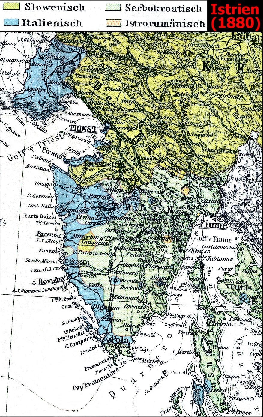 Ethnic map of Istia according to the 1880-census